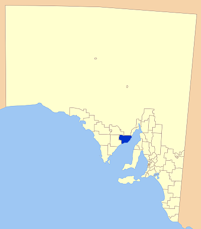 Modification of Astrokey44's original map found here: File:SA_LGA_blank.png Position of Coober pedy LGA